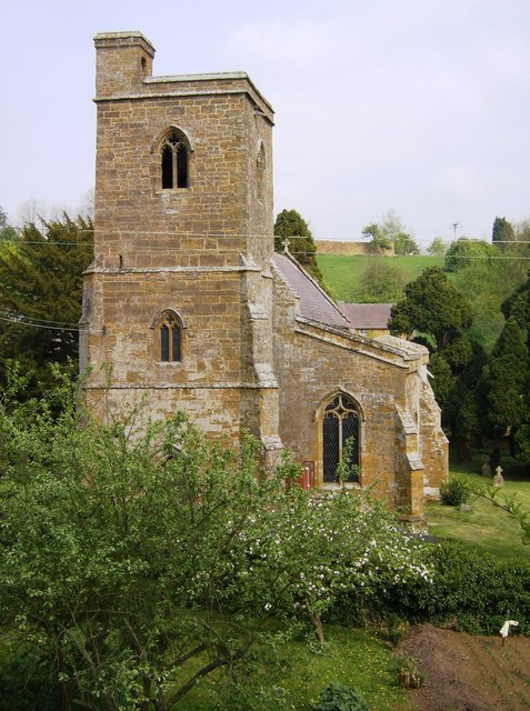 Church of England parish church of St Peter ad Vincula, Ratley, Warwickshire, seen from the west, showing the 13th-century tower and 14th-century south aisle